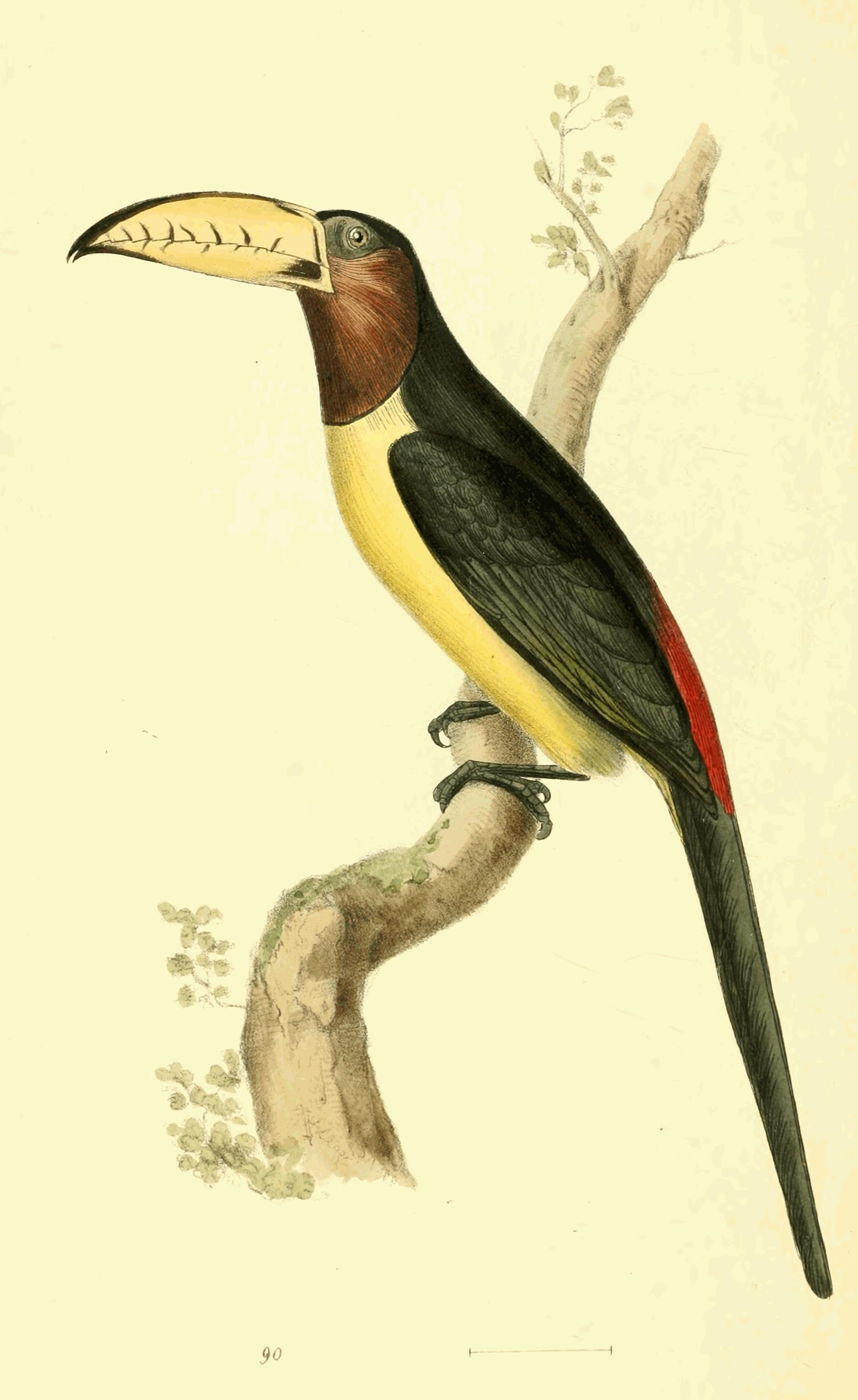 Plate 90. Pteroglossus inscriptus. Lettered Aracari.